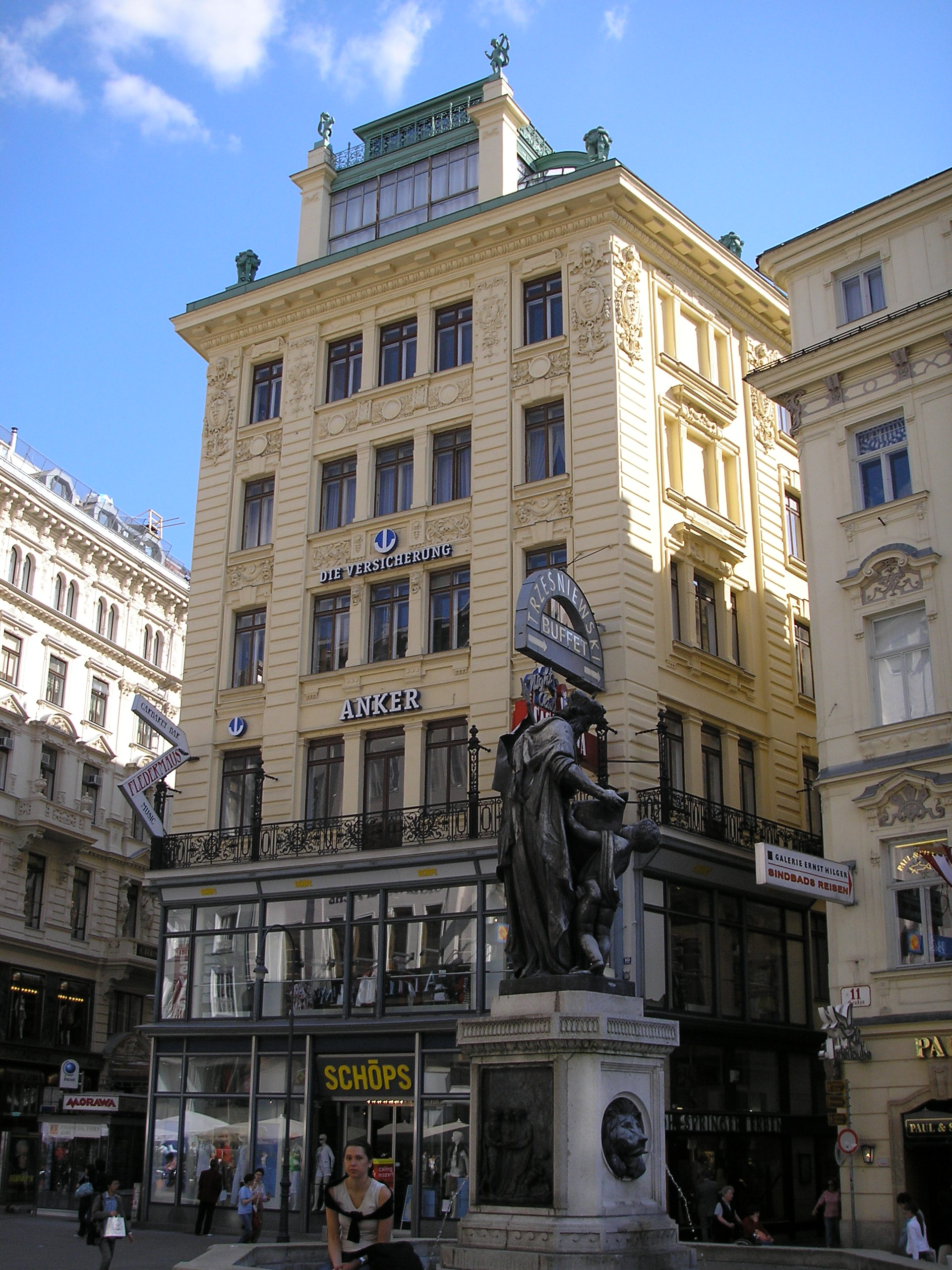 The Graben street in Vienna.